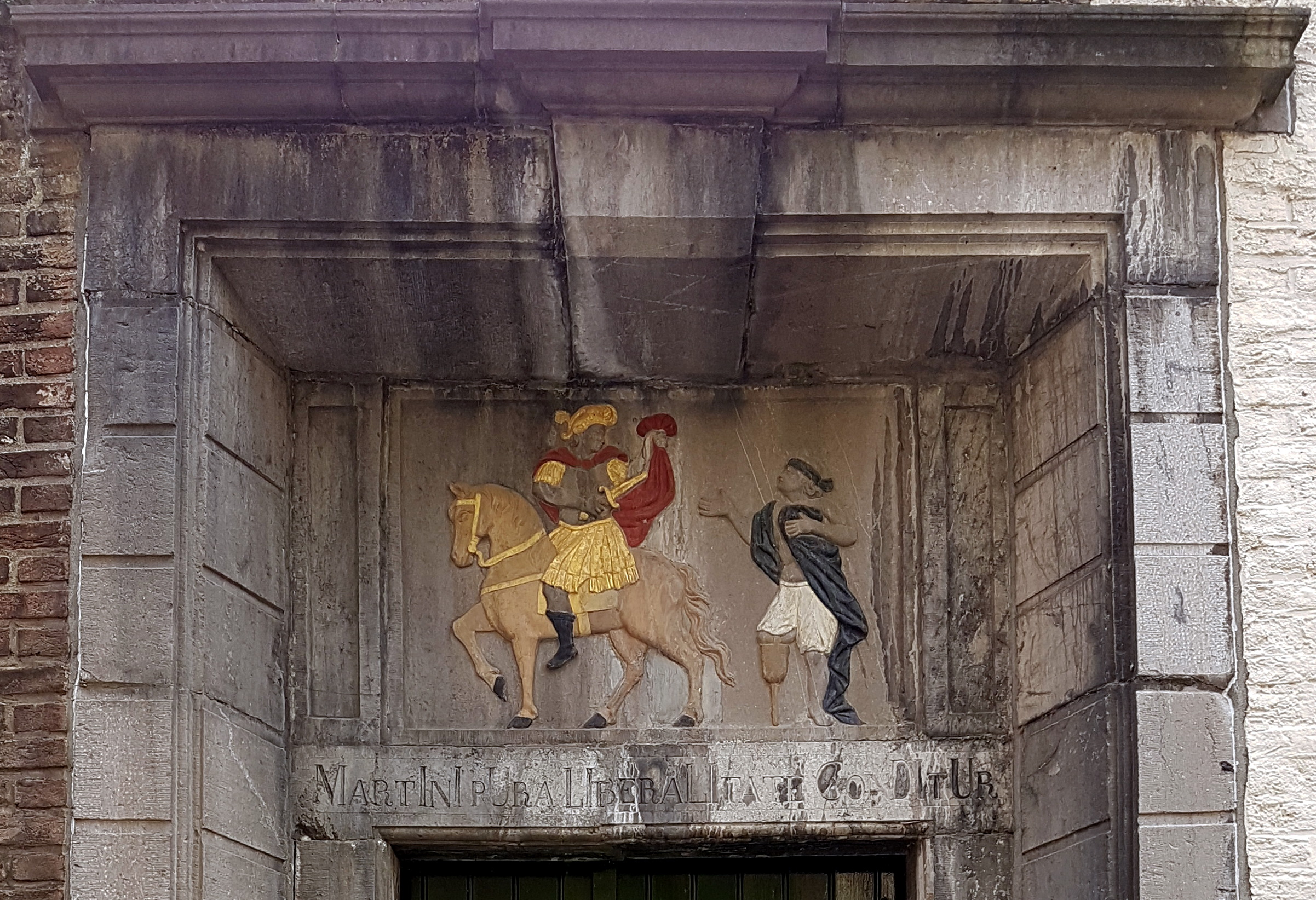 Gable stone above the main entrance of Sint-Maartenshofje in Maastricht, Netherlands. The stone shows a relief of Saint Martin of Tours and the beggar. Below is a chronogram in Latin: MartInI pUra LIberaLItate ConDItUr. The Roman numerals ( MIIULILICDIU) constitute the year 1715.